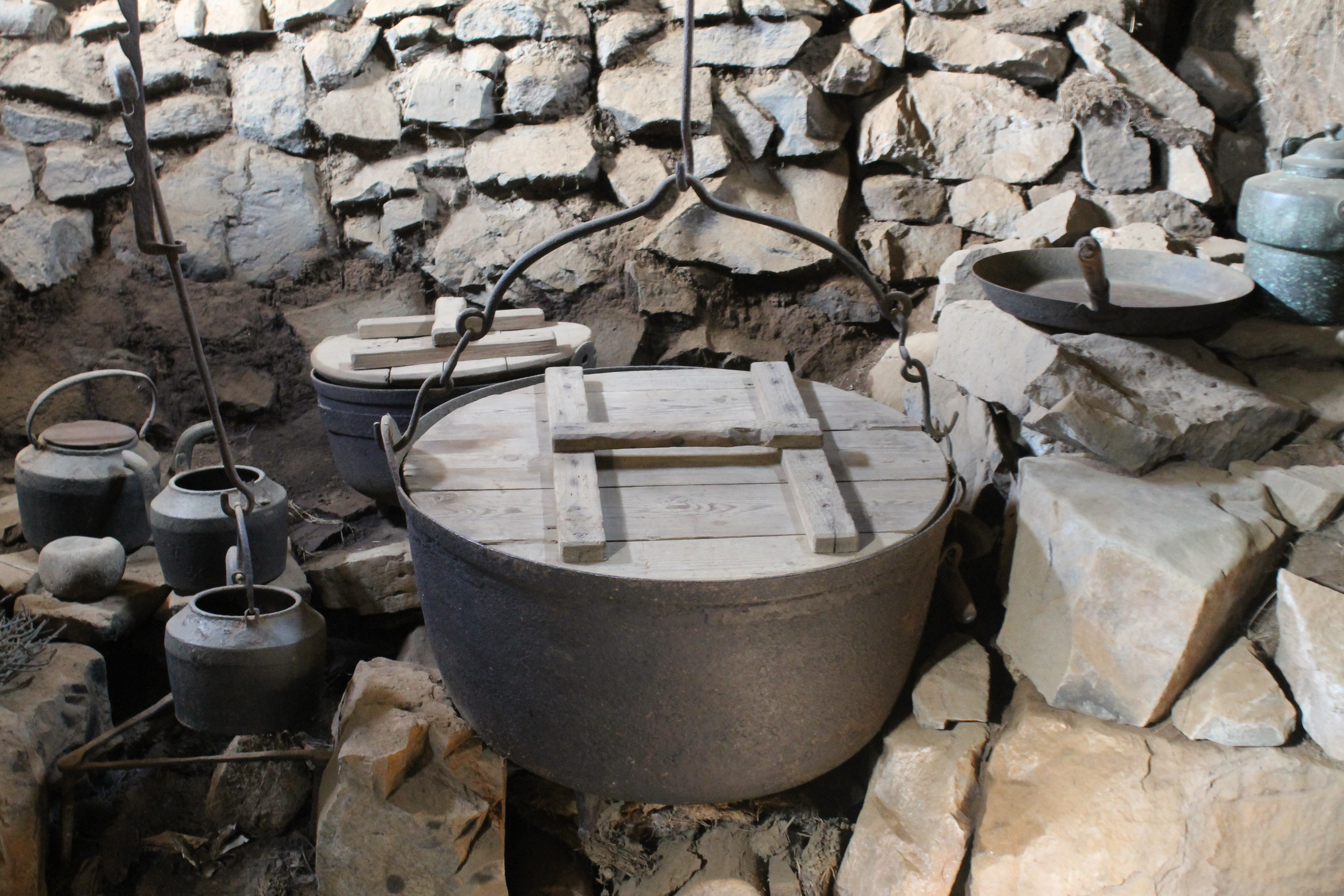 An open stove built of stone. Glaumbær museum, Skagafjörður, Iceland.